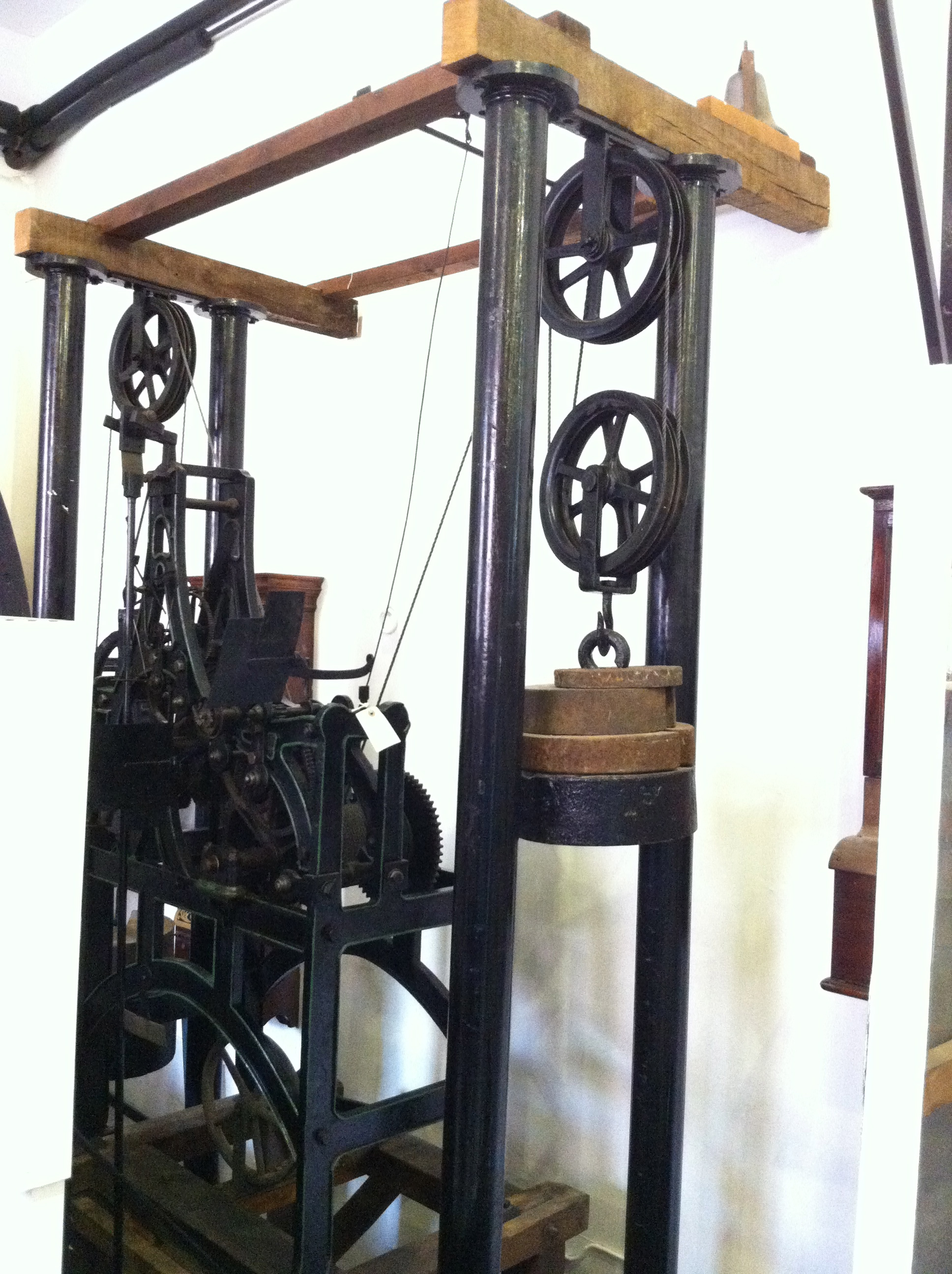 Clock by Cope of Nottingham, in Nottingham Industrial Museum, Wollaton Park.